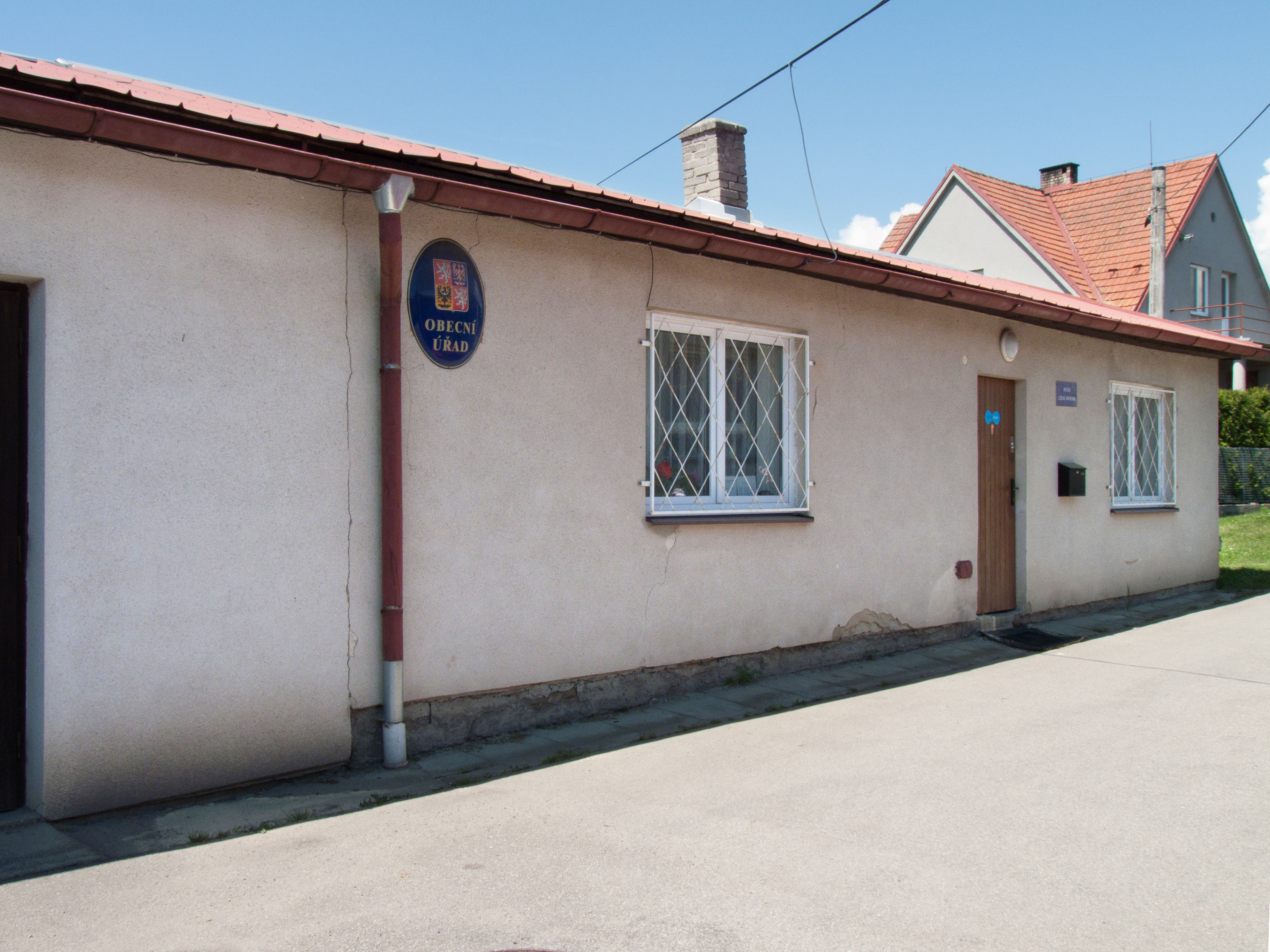 Municipal office building in the village of Ústrašice, Tábor District, Czech Republic.